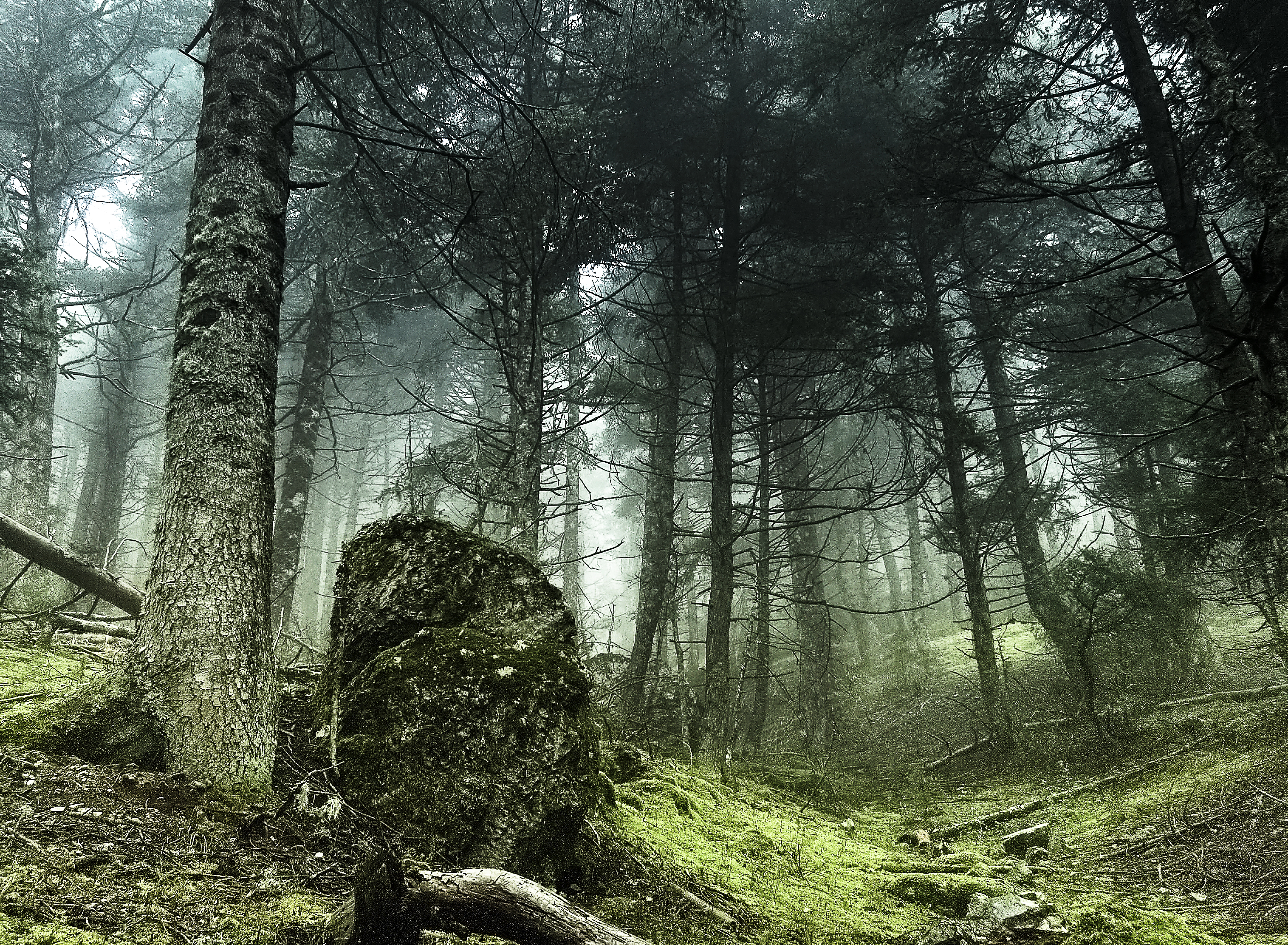 This is a photography of Natura 2000 protected area with ID GR2520001